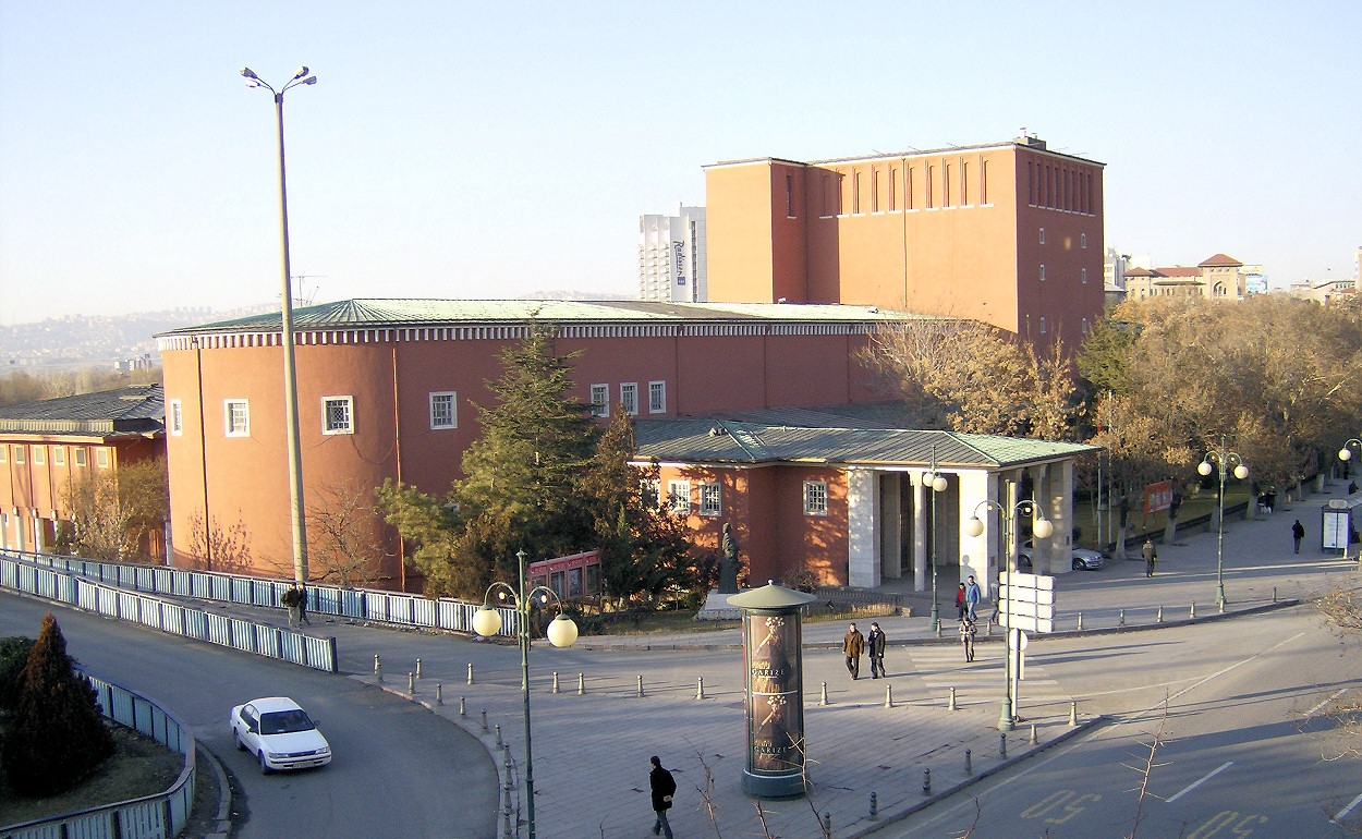 Ankara Opera House, main venue of the Turkish State Opera and Ballet in Ankara, Turkey